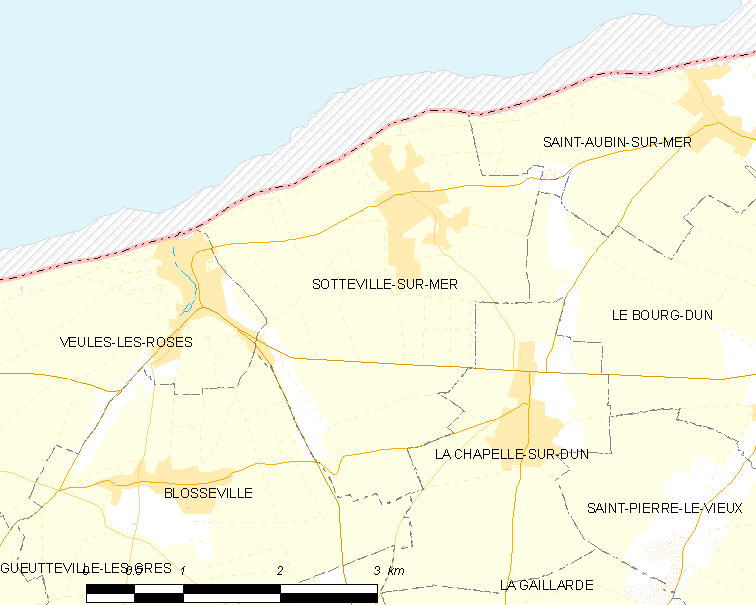 Map of French municipality Sotteville-sur-Mer